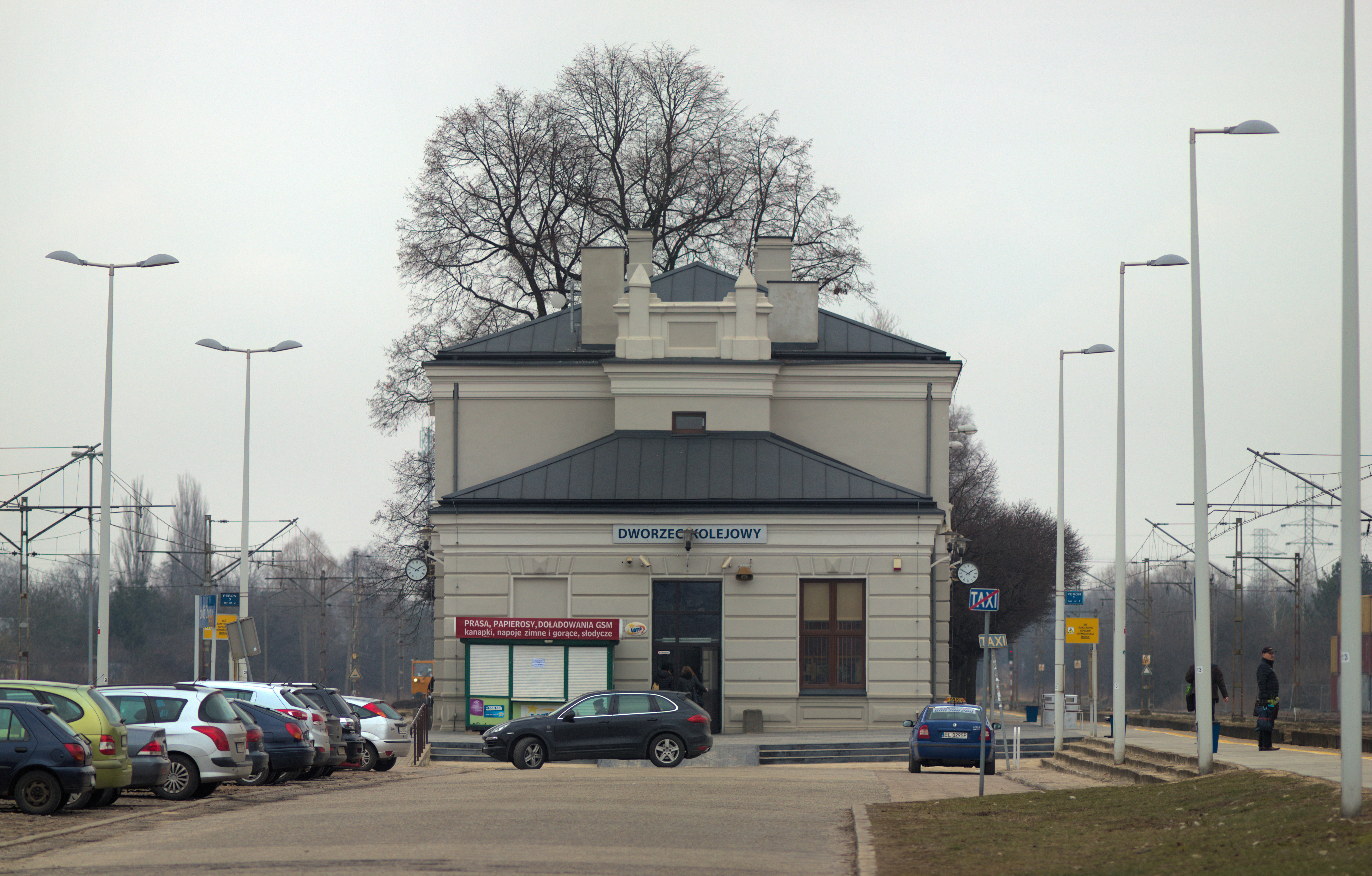 Łódź Chojny railway station